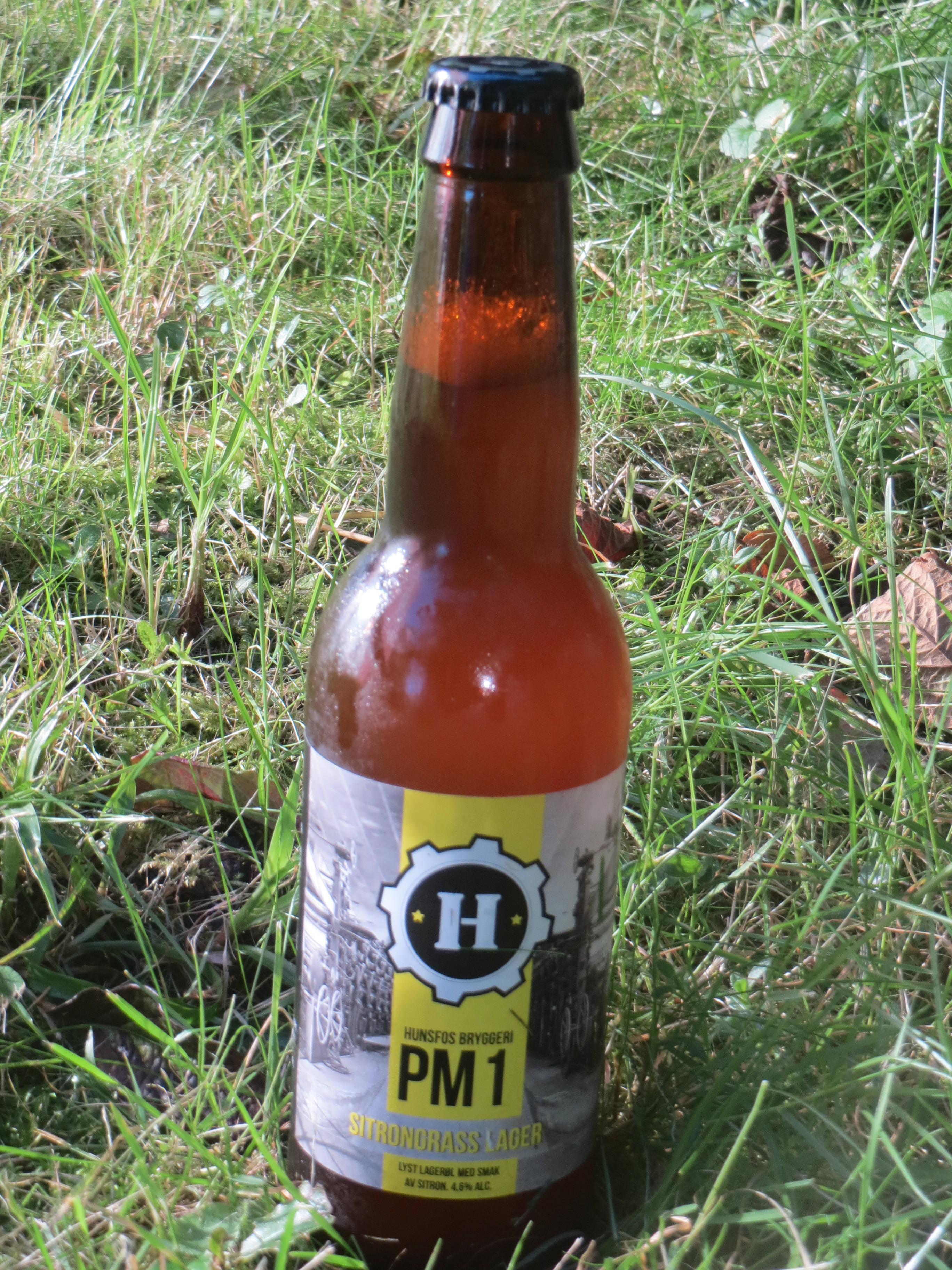 Lemongrass Lager Beer from Hunsfos Brewery, Vennesla, Norway